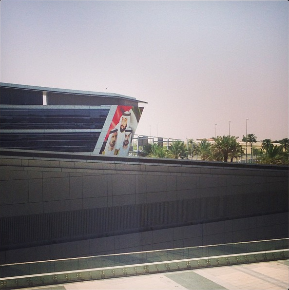 At United Arab Emirates University meeting with the class of 2013-14 Scholars. #nyuadsmsp